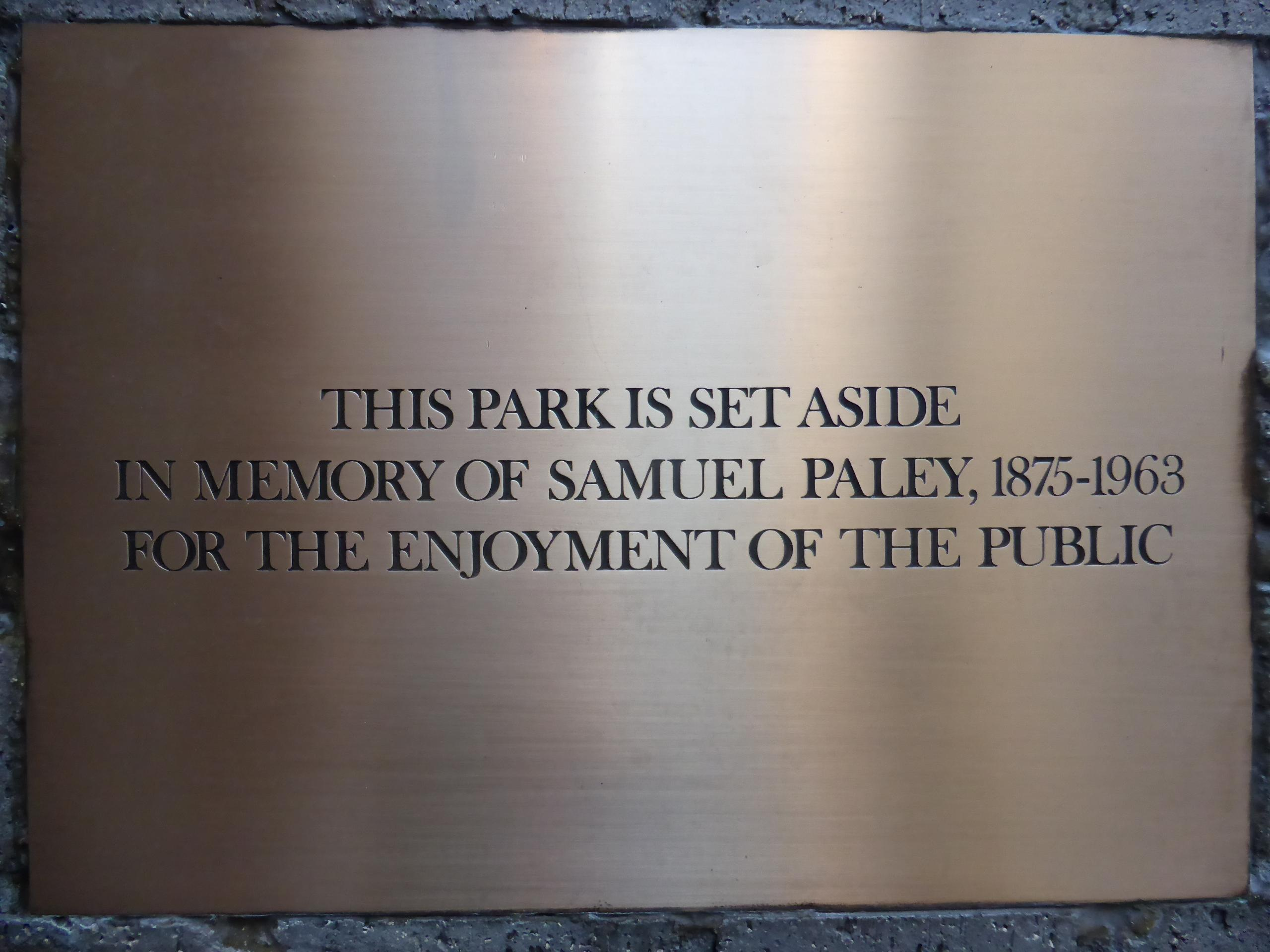 Dedication plaque at Paley Park, Manhattan, New York City